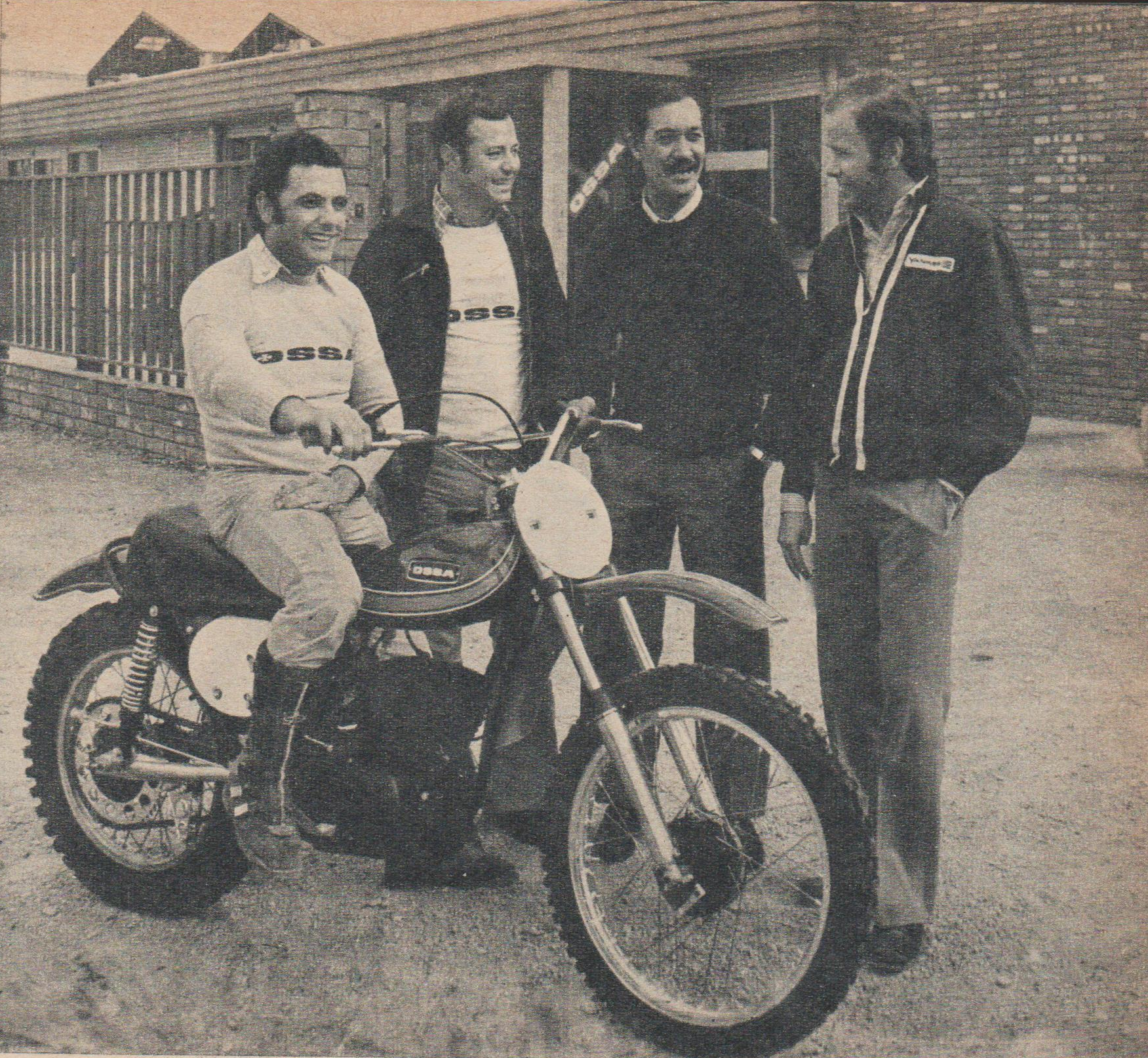 Domingo Gris at OSSA factory in 1974, on the OSSA Phantom. Beside him, Fernando Muñoz and Mr. Werring and Mr. Suriñach from OSSA staff.